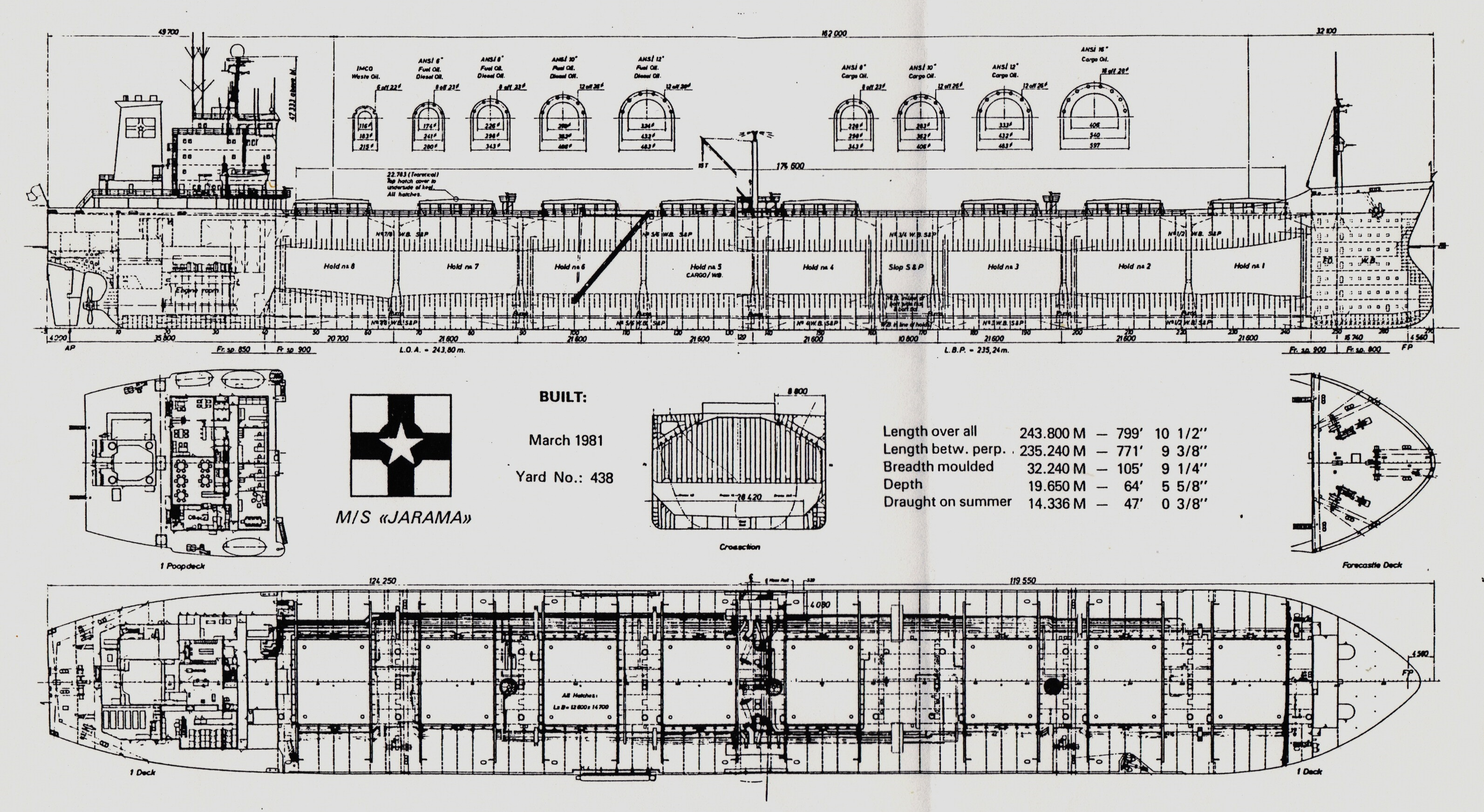 Bulk Carrier ship technical drawing